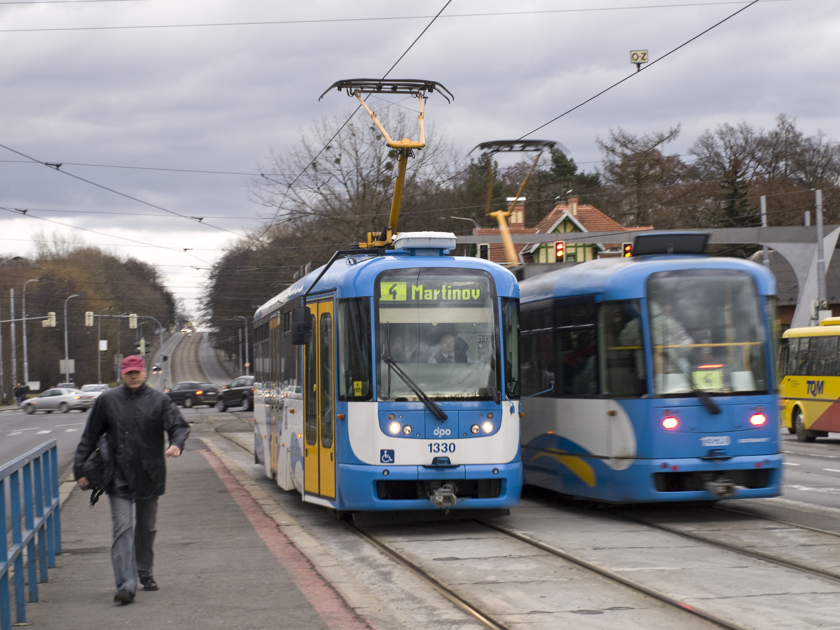 Vario LF, 28. října × Plzeňská, Nová Ves, Ostrava